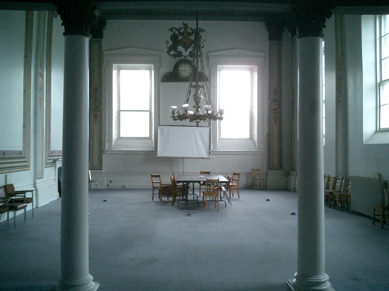 The former chamber of the Newfoundland House of Assembly in the Colonial Building, St. John's, Newfoundland and Labrador, Canada.